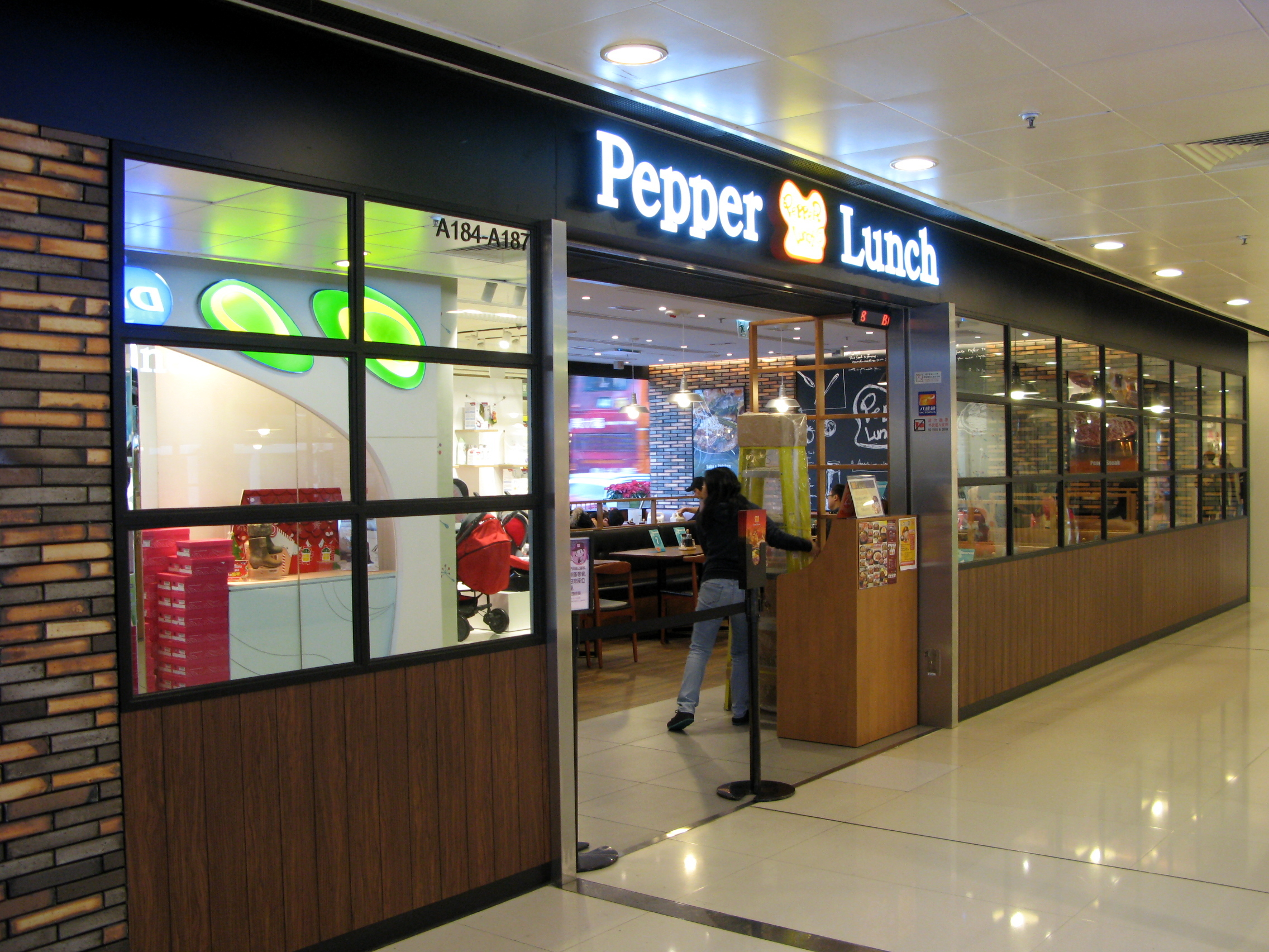 Pepper Lunch in New Town Plaza